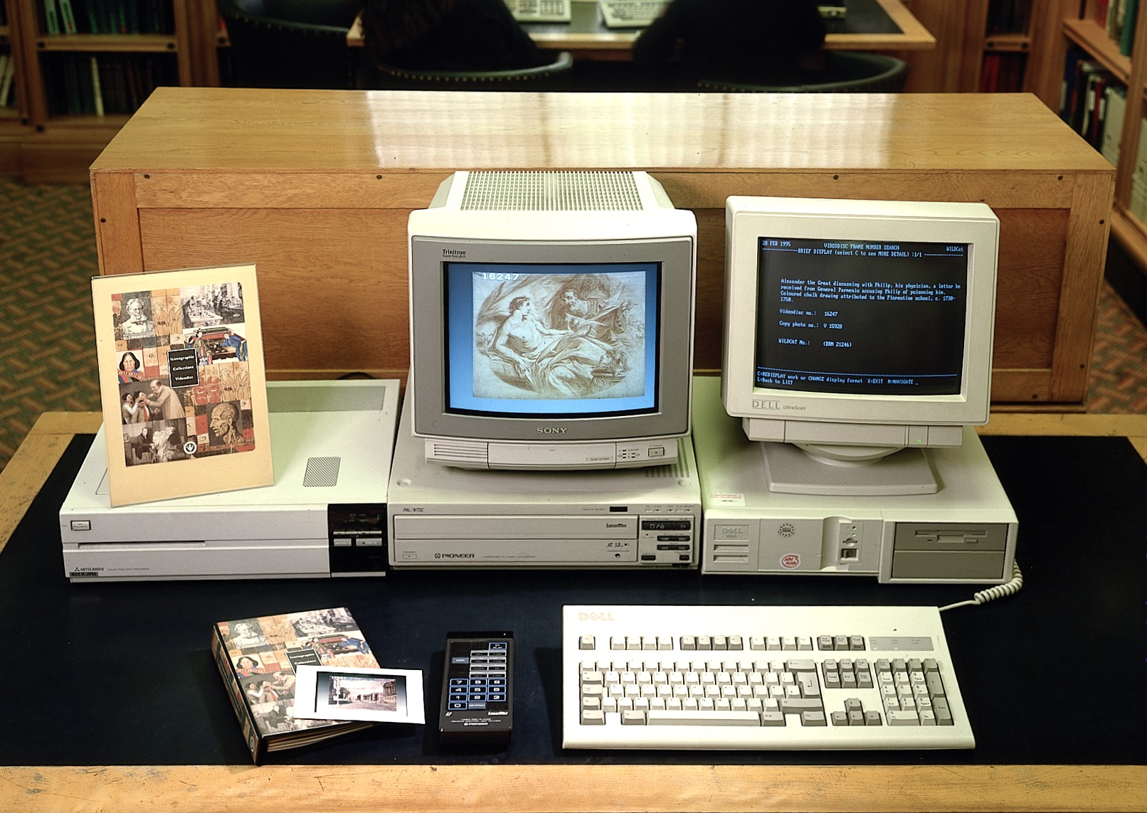 Photograph of a videodisk workstation set up in the conference hall. Iconographic Collections